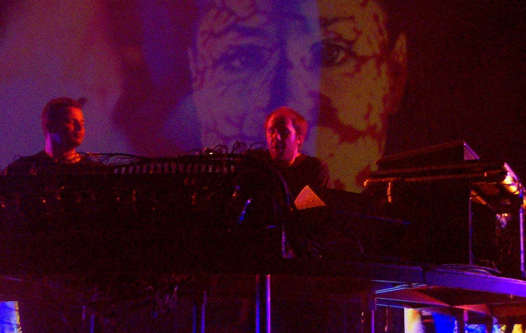 The Chemical Brothers, live in Milano (Italy), 01/03/2005